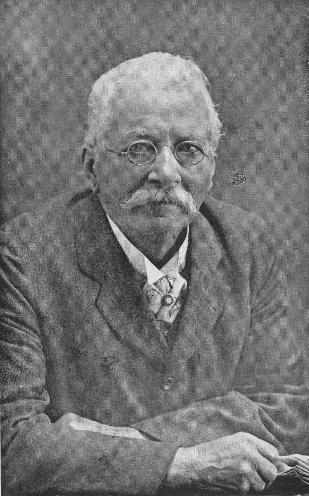 Black and white photo of Henry Suter (9 March 1841 – 30 July 1918).